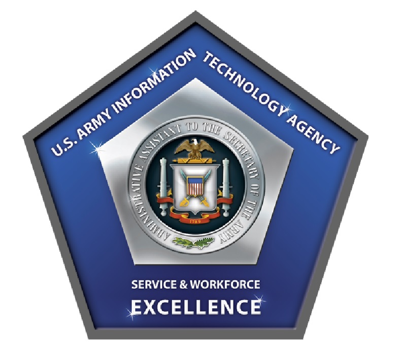 ITA Logo